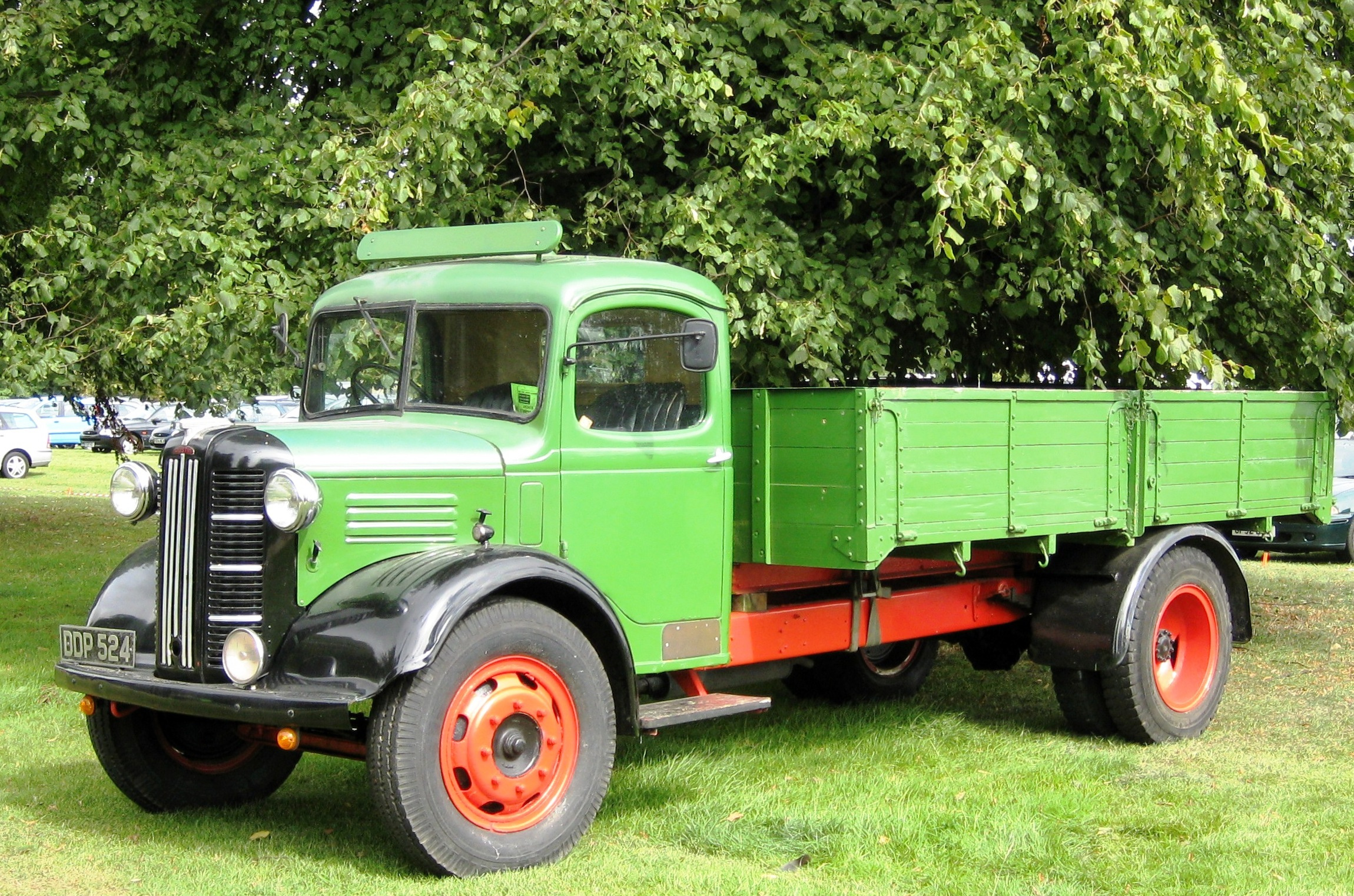 Austin K2 Truck probably from the late 1940s or early 1950s